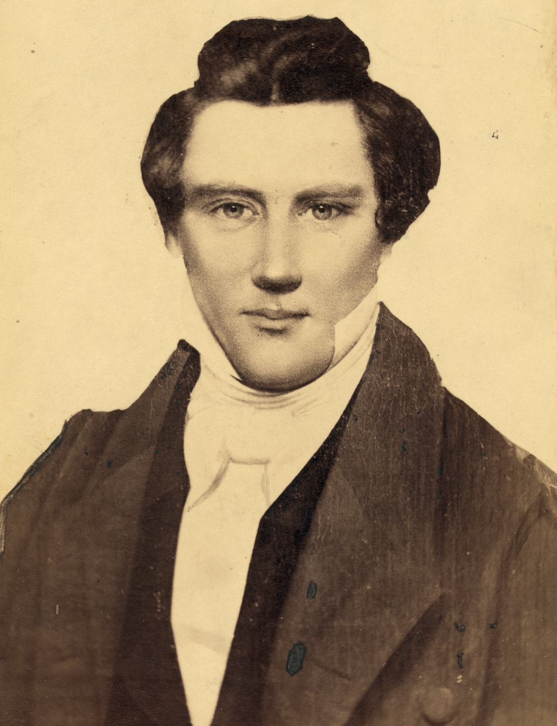 Joseph Smith from a daguerreotype taken by Lucian Foster (November 12, 1806-December 12 1845) sometime between 1840 and 1844, submitted to the Library of Congress in 1879 by Smith's son Joseph Smith III. This is a 3rd generation copy which has been heavily edited by an artist. Much controversy has surrounded this image and scholars questioned whether it came from a daguerreotype or a closely related painting. In 2009, Kim Marshall came forward with a unedited 2nd generation contact print given to her by her grandmother. An image that precedes the Library of Congress image of Joseph Smith in regards to editing and photographic detail, proving that in fact both photos originated from a long lost daguerreotype photograph of the LDS leader. Kim Marshall's research may be seen at